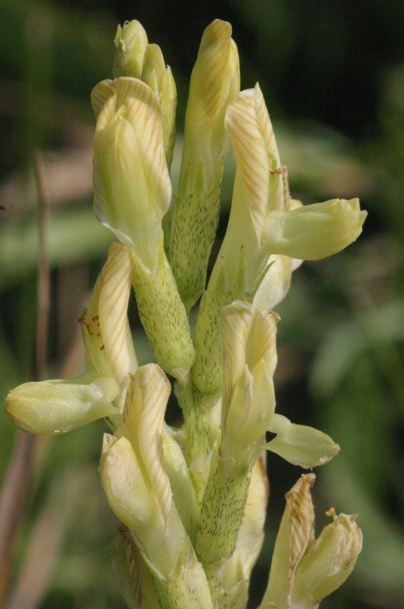 Astragalus asper